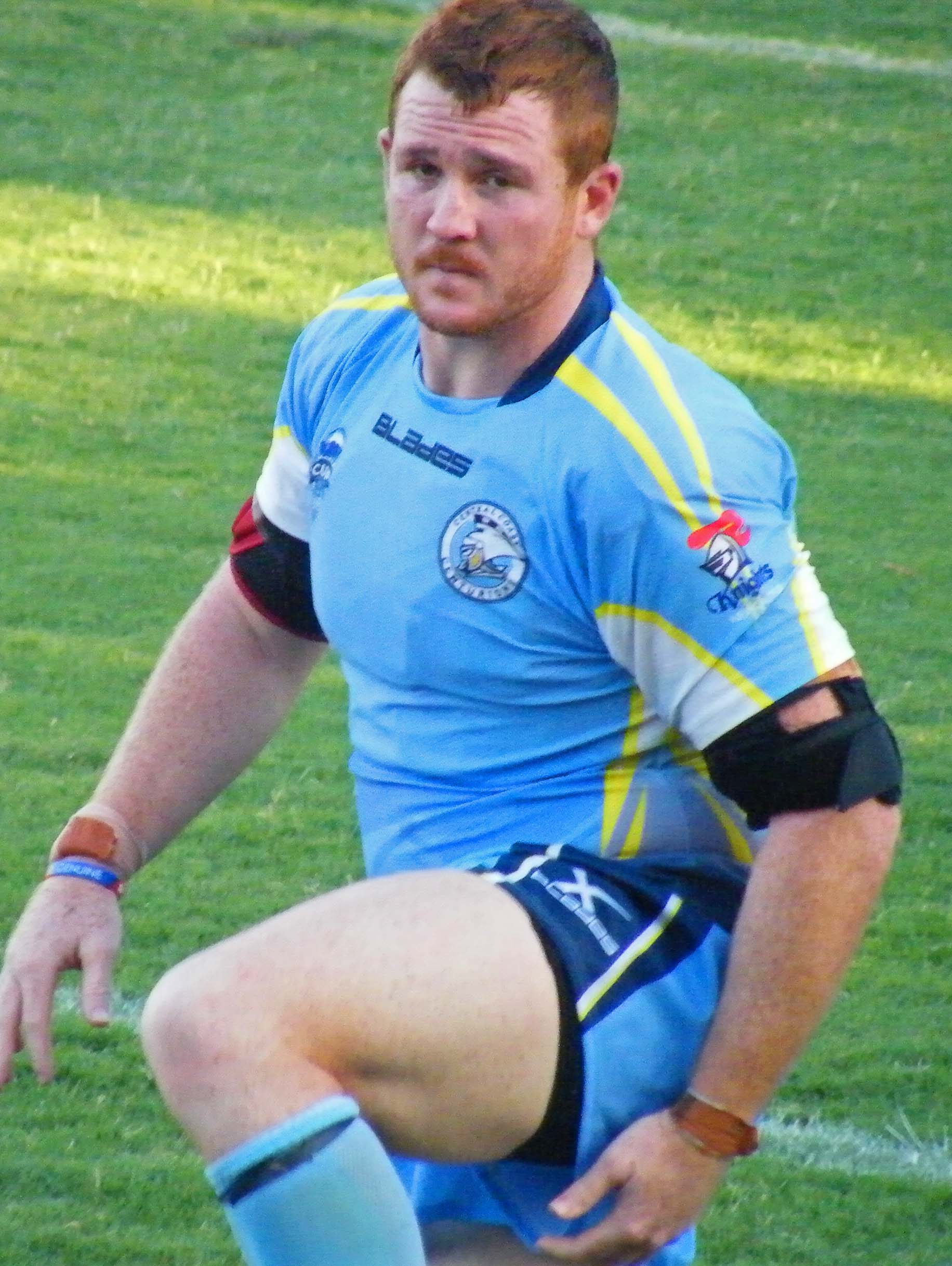 Steve Southern playing for the Central Coast Centurions